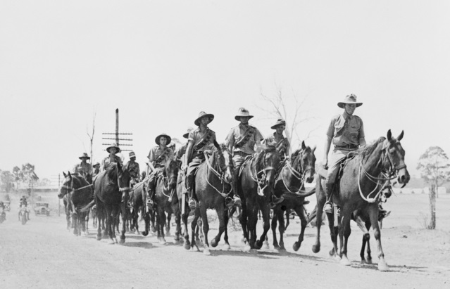 Australian 4th Cavalry Brigade on exercise around Wallgrove, New South Wales, February 1940